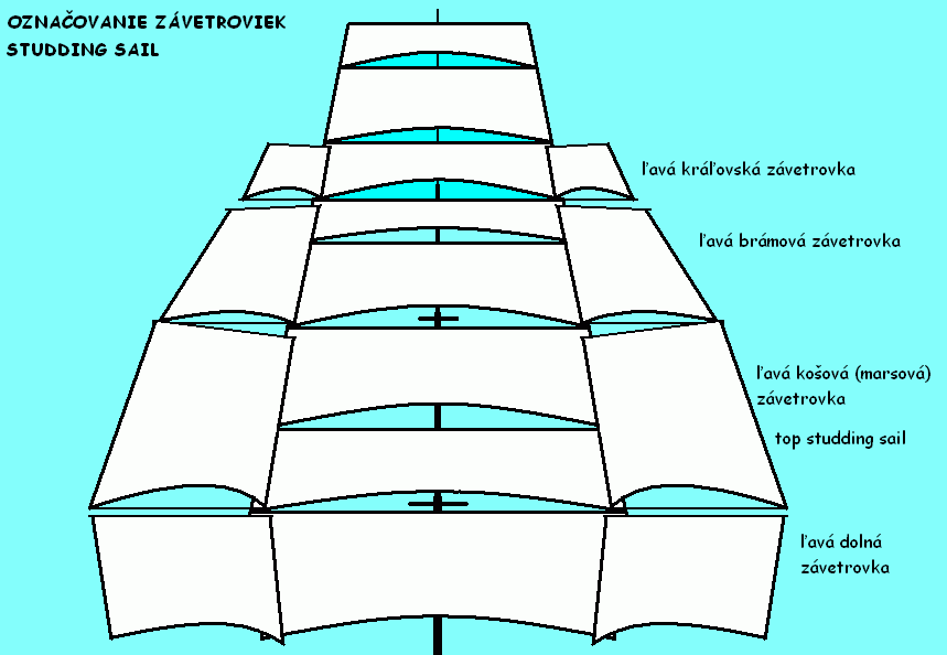 Studding sail